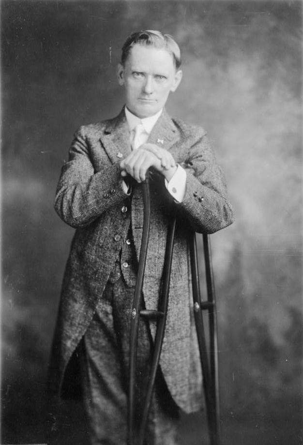 Hon. William David Upshaw, three-quarter length portrait, standing with crutches, facing front